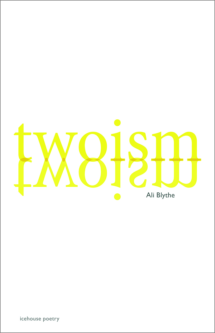 Twoism: published September 2015 by icehouse poetry/Goose Lane Editions